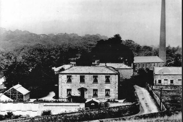 Old photo of Shotley Grove House. Taken about 1880